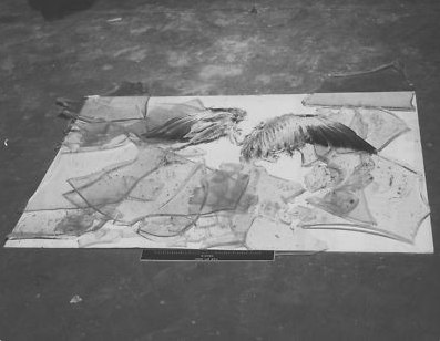 Aftermath of the Northrop T-38 Talon crash that killed NASA astronaut Theodore Freeman on October 31, 1964. Wings of the Lesser Snow Goose that flew into Freeman's port-side air intake lie alongside fragments of his T-38 canopy. Freeman was the first American astronaut killed in the line of duty.